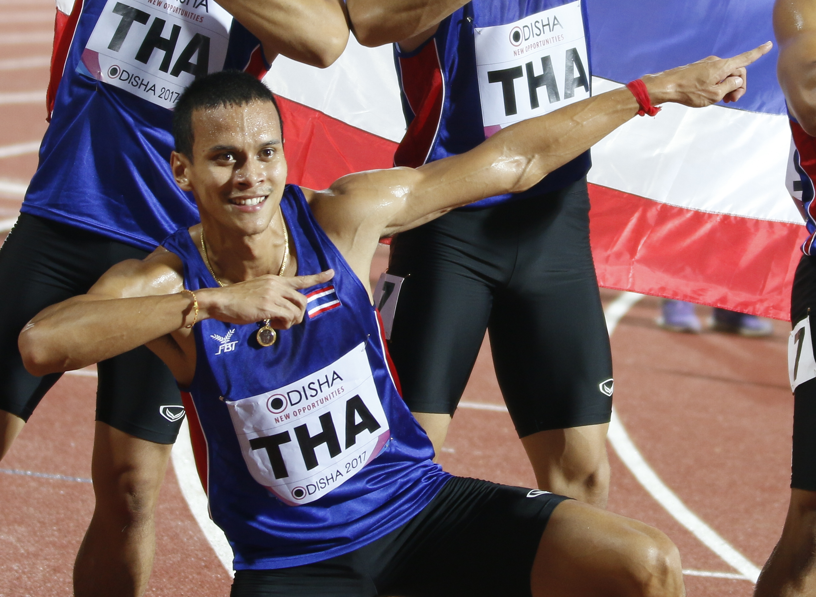 Jirapong Meenapra during 22nd Asian Athletics Championships in Bhubaneswar.